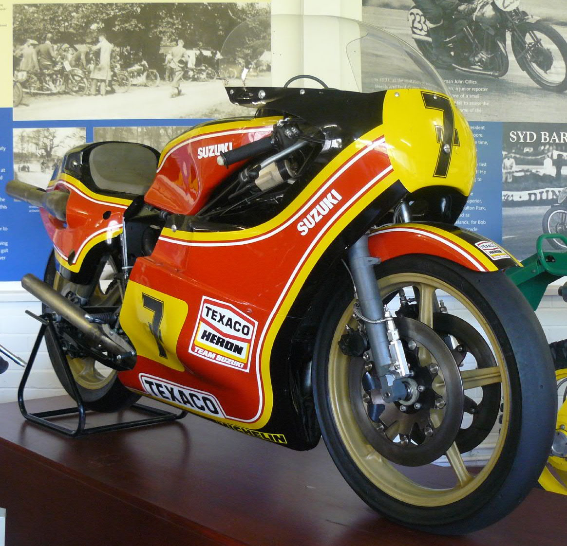 Barry Sheene's Heron Suzuki at the Donington Collection